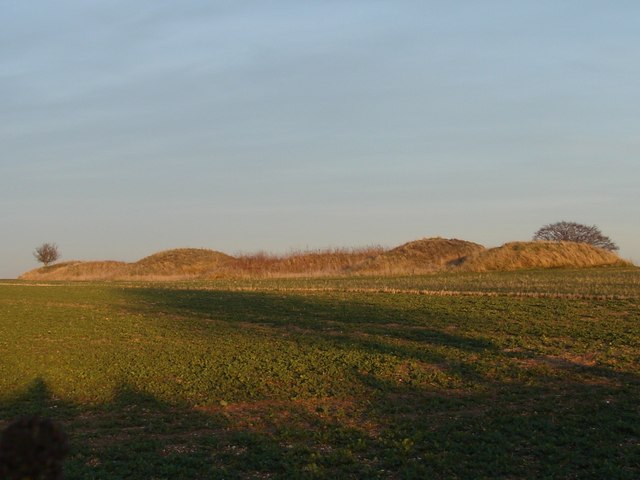 Tumuli at Bully Hill View of these ancient mounds or barrows, taken from the roadside.